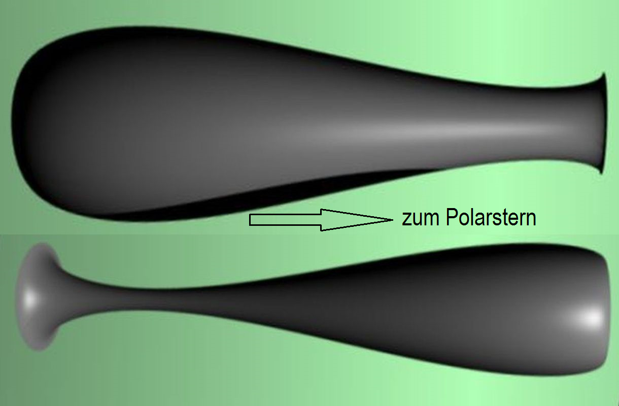 for analemmatic sundial: gnomons as of Martin Bernhardt